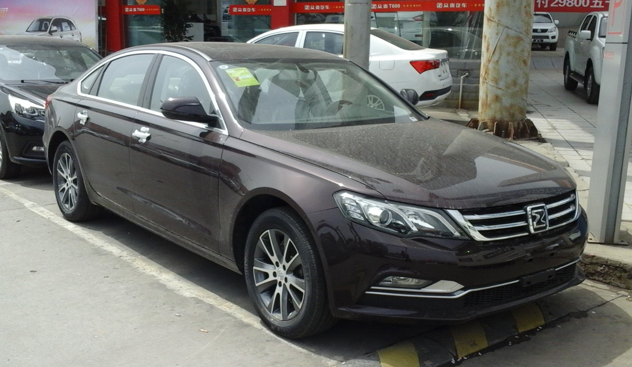 Zotye Z700 photographed in Xi'an, Shaanxi province, China.